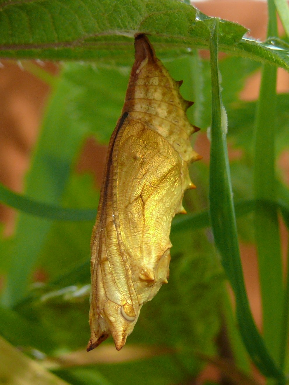 Small Tortoiseshell - pupa, third day